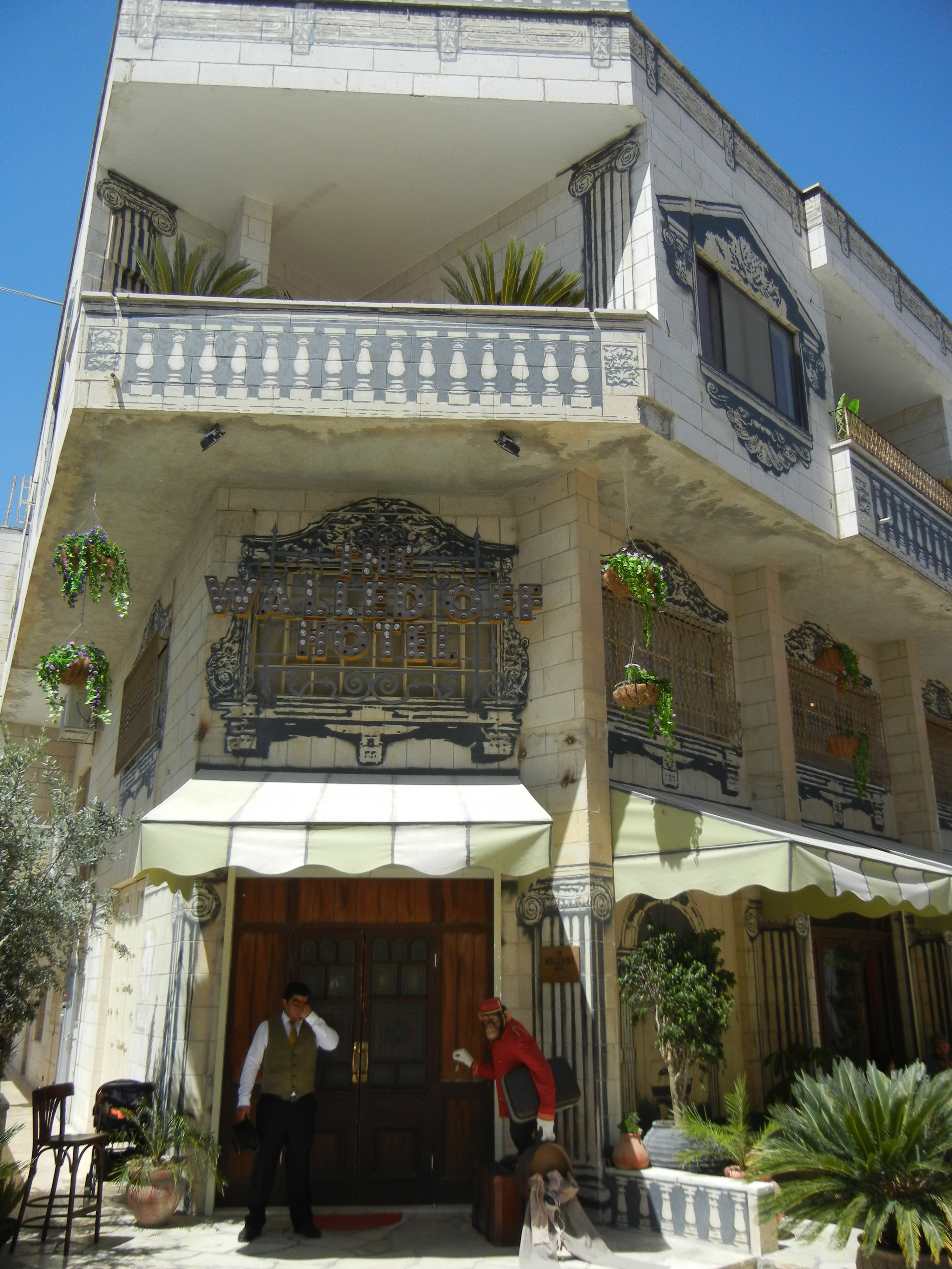 Outlook of the walled off hotel